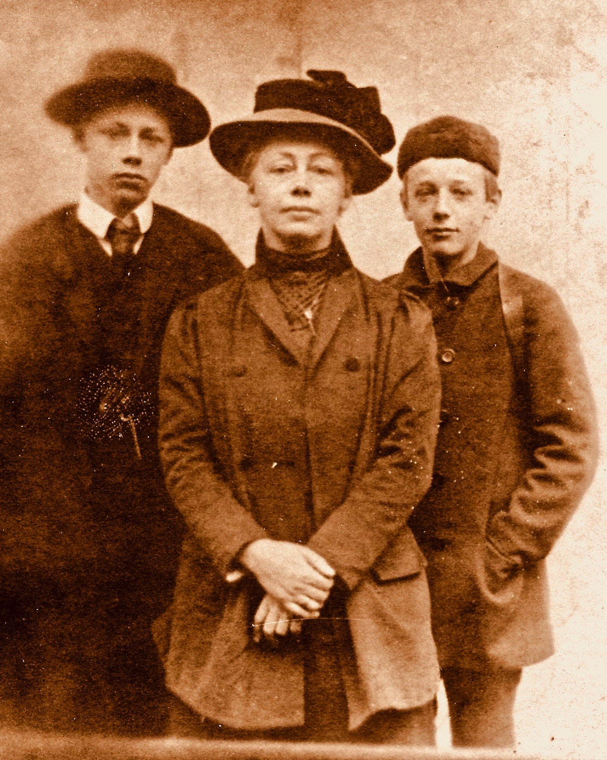 Left to right: Hans Kollwitz (1892–1971), Käthe Kollwitz (1867–1945), Peter Kollwitz (1896–1914).